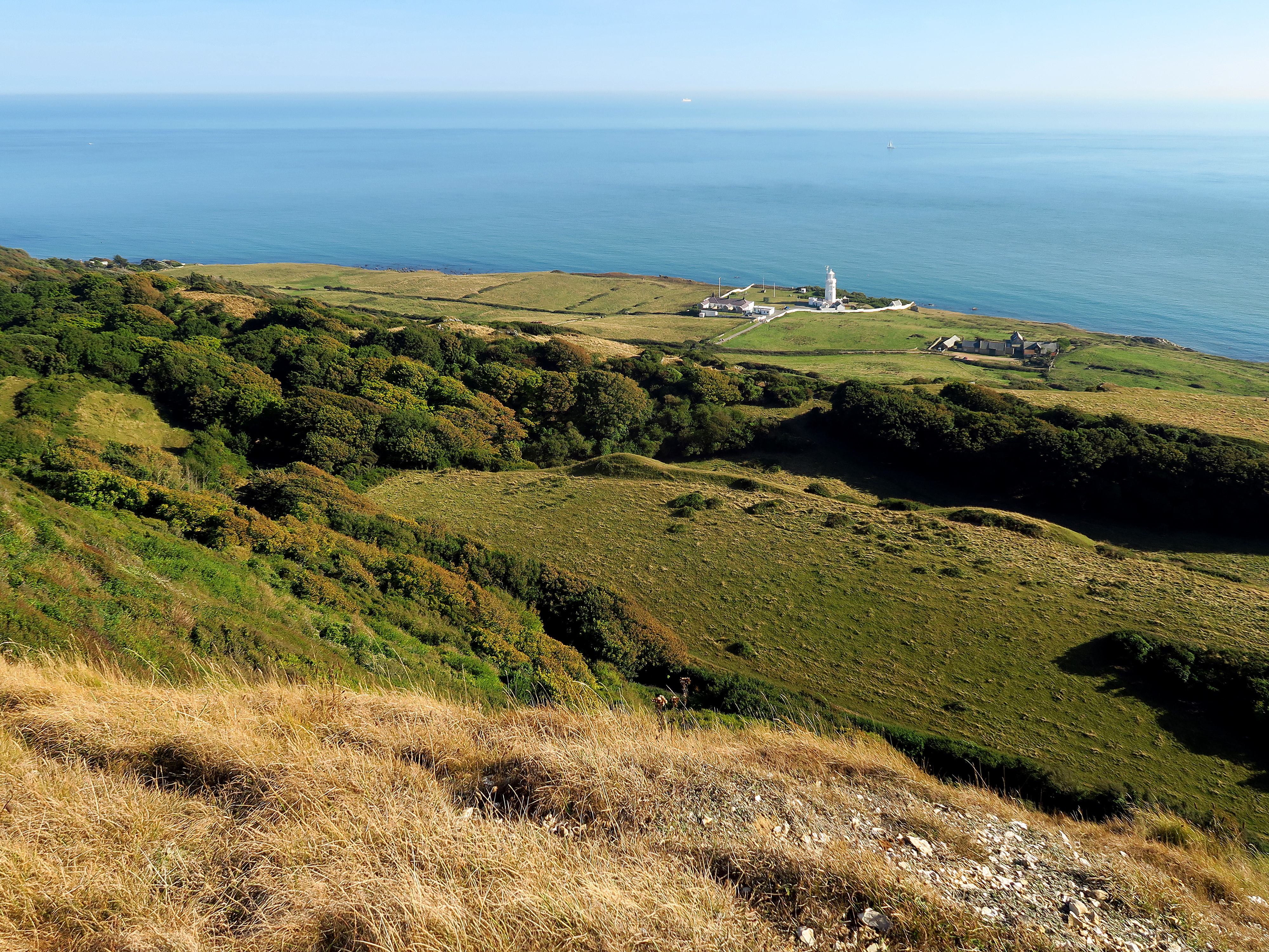 St Catherine's Point and Lighthouse, Isle of Wight, England. View from Gore Cliff.